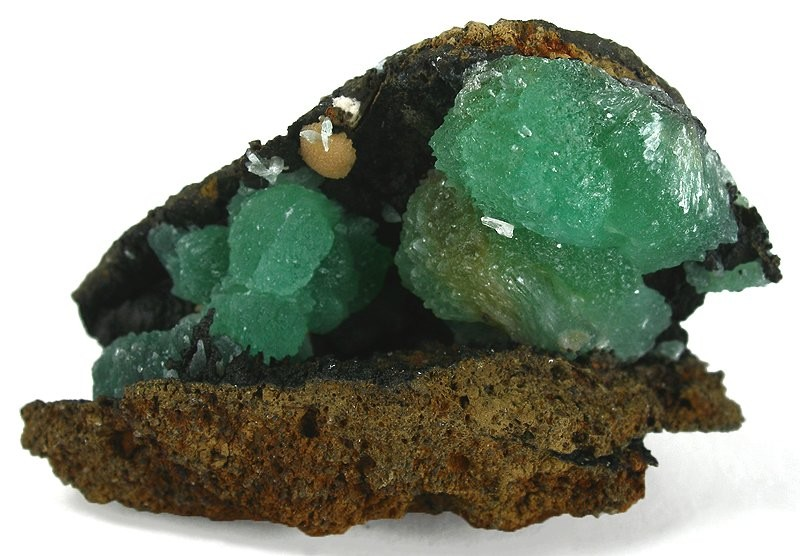 Anapaite Locality: Kerch peninsula (Kertch peninsula), Crimea peninsula, Crimea Oblast', Ukraine (Locality at ) Size: 5.0 x 3.7 x 3.1 cm. Anapaite for some reason is an extremely rare iron phosphate, despite the fact that iron phosphates are so rich and abundant in other localities. In particular, I find it odd that here the anapaite occurs in a zone different from where vivianite, the more common phosphate, also can be found. Yet it does not seem to occur in good crystals at other major vivianite localities, in different layers or otherwise. I cannot recall a single Kerch specimen showing the two grown together in the same pocket, for that matter. In any case, the mineral is beautiful on its own merit, and here we have a surprisingly rich growth of anapaite in a cavity in gossan matrix. The minute yellow mineral in association is baryte.